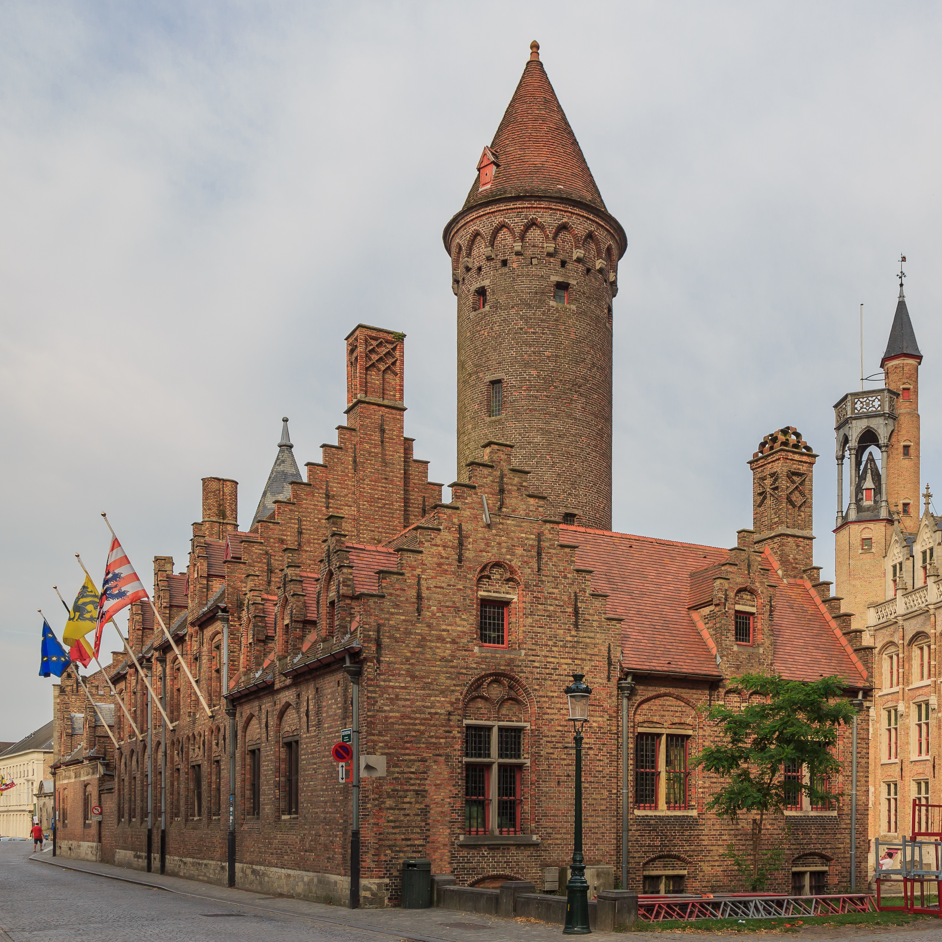 Bruges, Belgium: Conciërgewoning en lapidarium Gruuthusesstraat